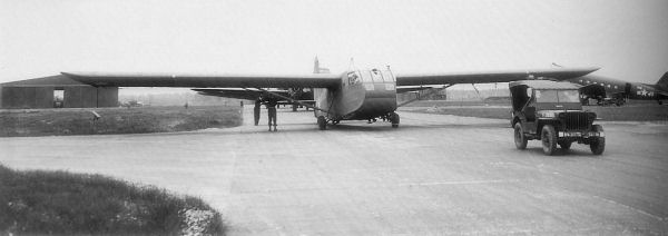 CG-4a Waco Glider of the 315th Troop Carrier Group - RAF Aldermaston, 1943. Source: "History and Units of the United States Air Forces In Europe", CD-ROM compiled by GHJ Scharringa, European Aviation Histoical Society, 2004. Image source listed as United States Army Air Forces via National Archives